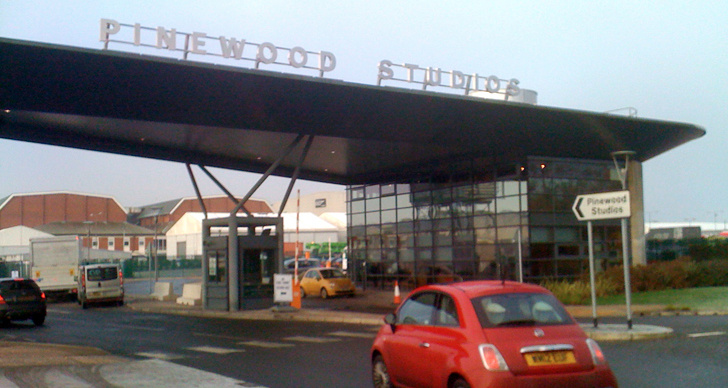 Pinewood Studios Gateway